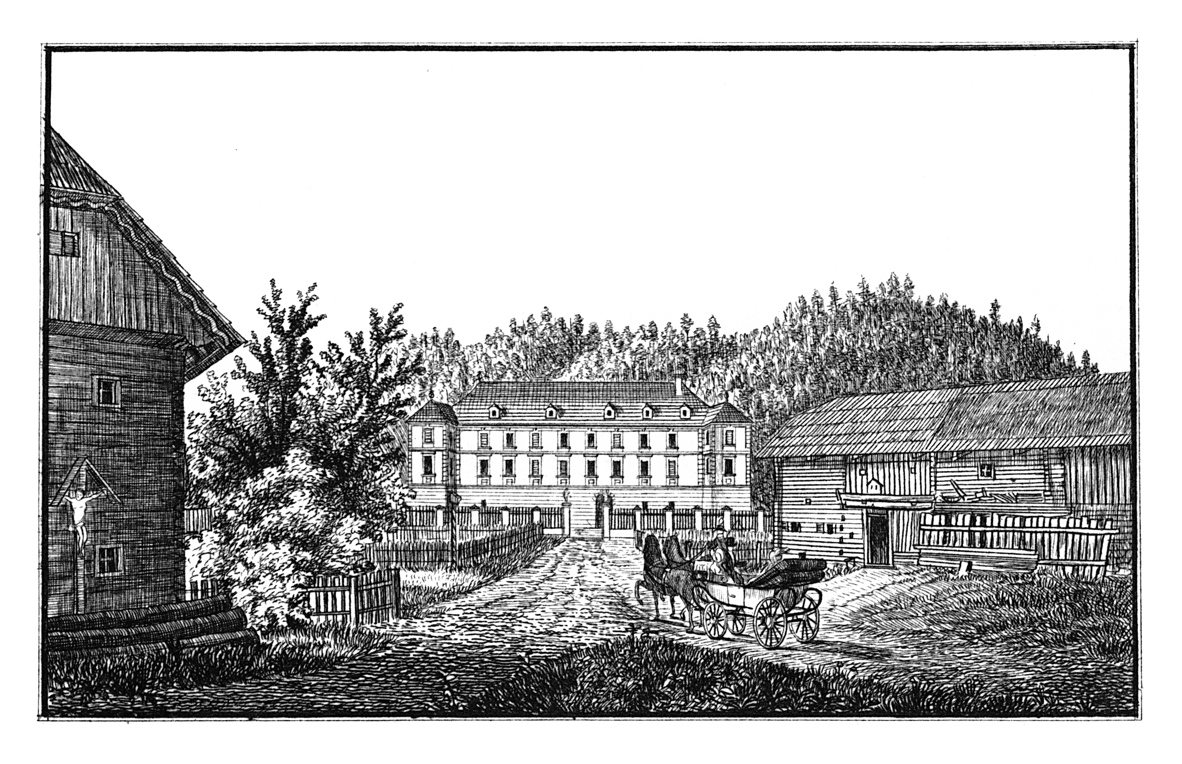 J. F. Kaiser - lithographirte Ansichten der Steyermärkischen Städte, Märkte und Schlösser, Graz 1824-1833 Joseph Franz Kaiser (1786–1859) Alternative names J. F. KaiserDescriptionAustrian printer and editorDate of birth/death 11 March 1786 19 September 1859Location of birth/death Graz (Styria) GrazAuthority control : Q1499963 VIAF: 30629353 ISNI: 0000 0000 3083 0153 LCCN: n87141671 GND: 129880159 NLP: A24960305 WorldCat creator QS:P170,Q1499963 . Scanprojekt Community Projektbudget 2012 This scan or this PDF-file was created within the GLAM-project Bookscanning, supported by Wikimedia Germany and Wikimedia Austria as a part of the community-project to capture books, documents and pictures which are not eligible to copyright or for which the copyright has expired. This document describes or depicts an object which is located in Austria today. Send requests for uncompressed scans to Hubertl. This work is in the public domain in its country of origin and other countries and areas where the copyright term is the author's life plus 100 years or less. You must also include a United States public domain tag to indicate why this work is in the public domain in the United States. This file has been identified as being free of known restrictions under copyright law, including all related and neighboring rights.